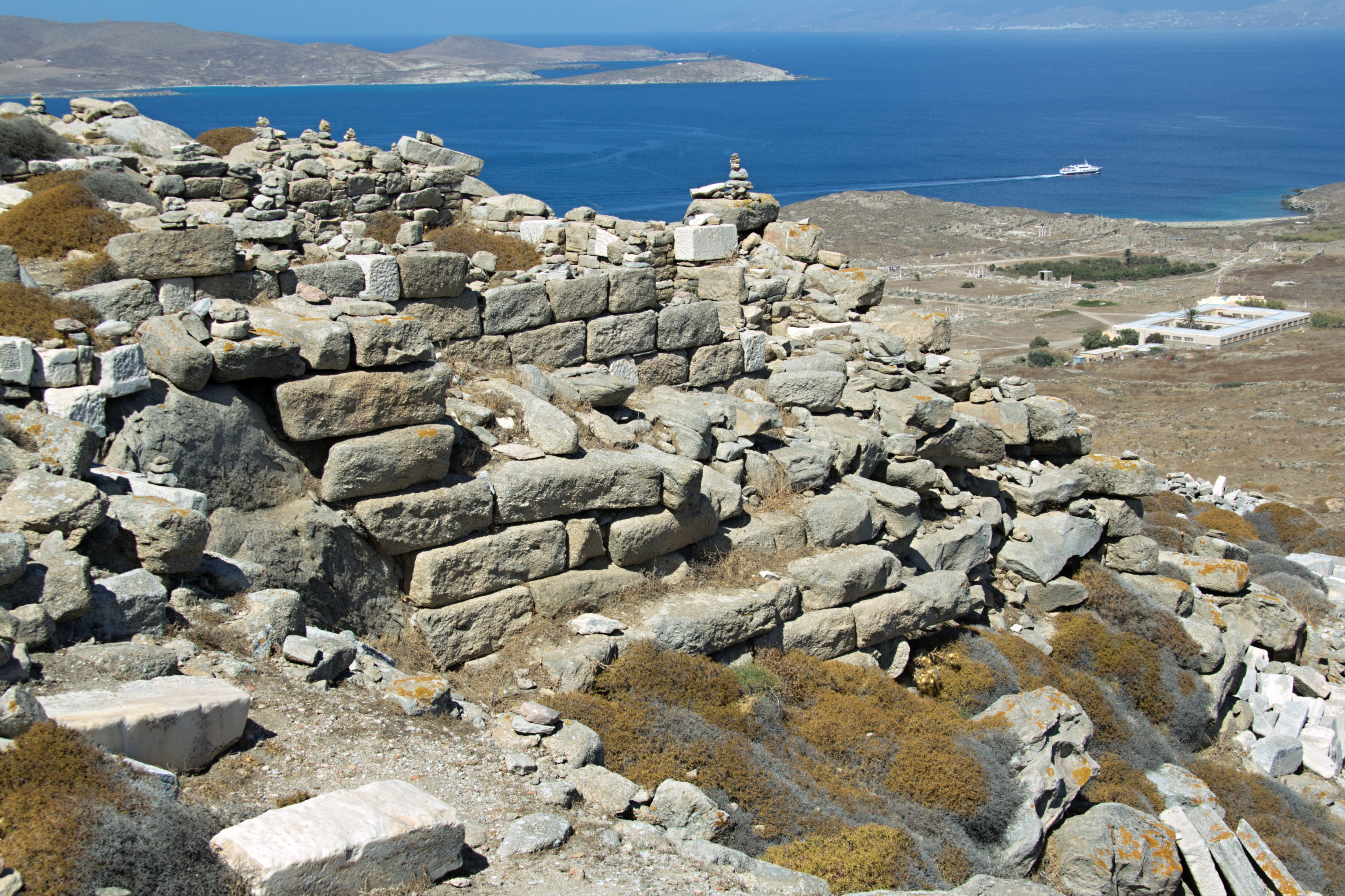 Terasy chrámů na vrcholu Kynthu, Délos. Na obzoru Mykonos. Dole je Archeologické muzeum na Délu.